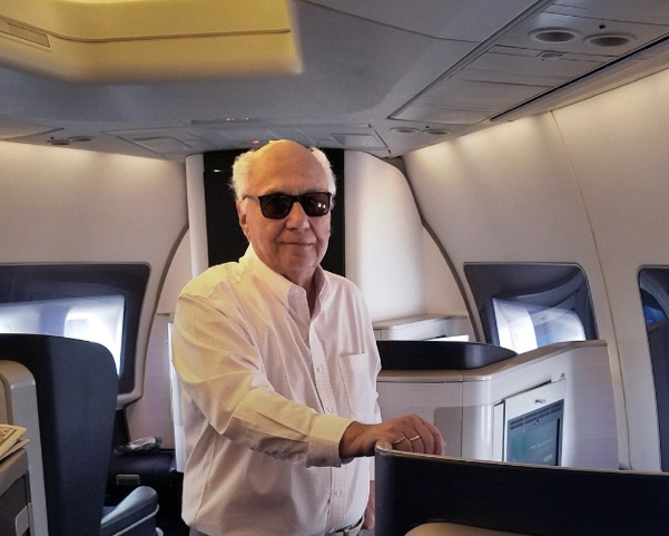 Lublin is wearing a white shirt and sun glasses, standing in a private plane on his flight home from the 69th Annual Primetime Emmy Awards.